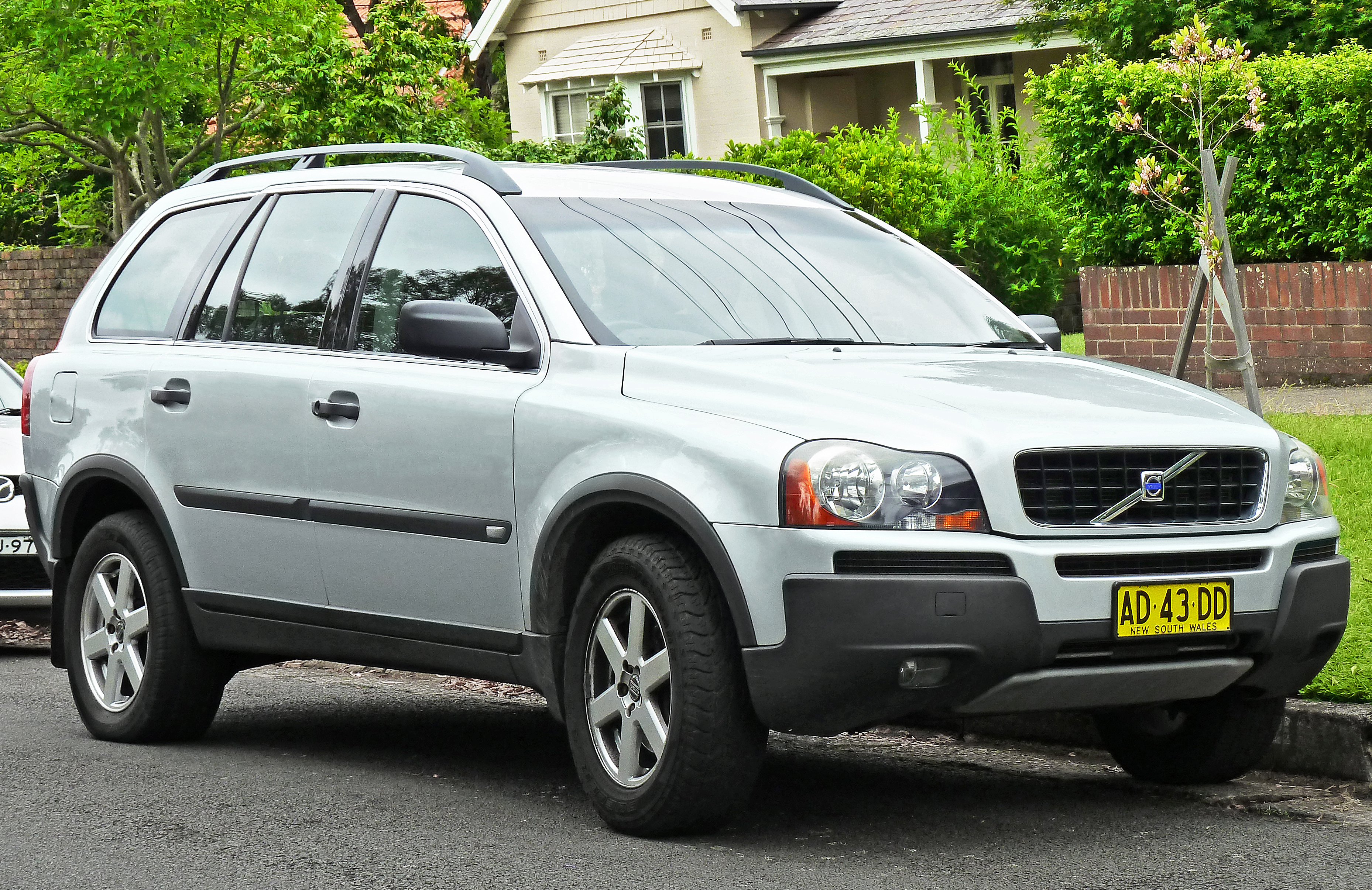 2005 Volvo XC90 (P28 MY05) 2.5 T wagon. Photographed in Lindfield, New South Wales, Australia.